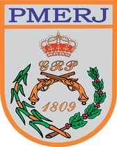 Coat of arms of Military Police - PMERJ - Brazil.